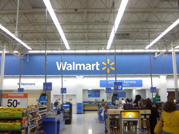 A picture of the inside of a remodeled Walmart in Miami, Florida.